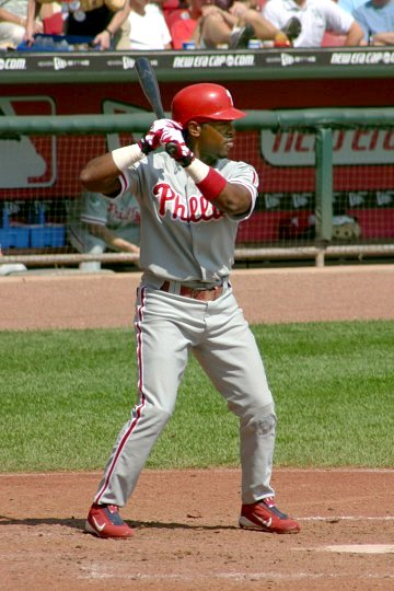 Baseball, Jimmy Rollins, Philadelphia Phillies, 2004, by Rick Dikeman 14:07, 16 September 2004 . . Rdikeman . . 360×540 (52,423 bytes)